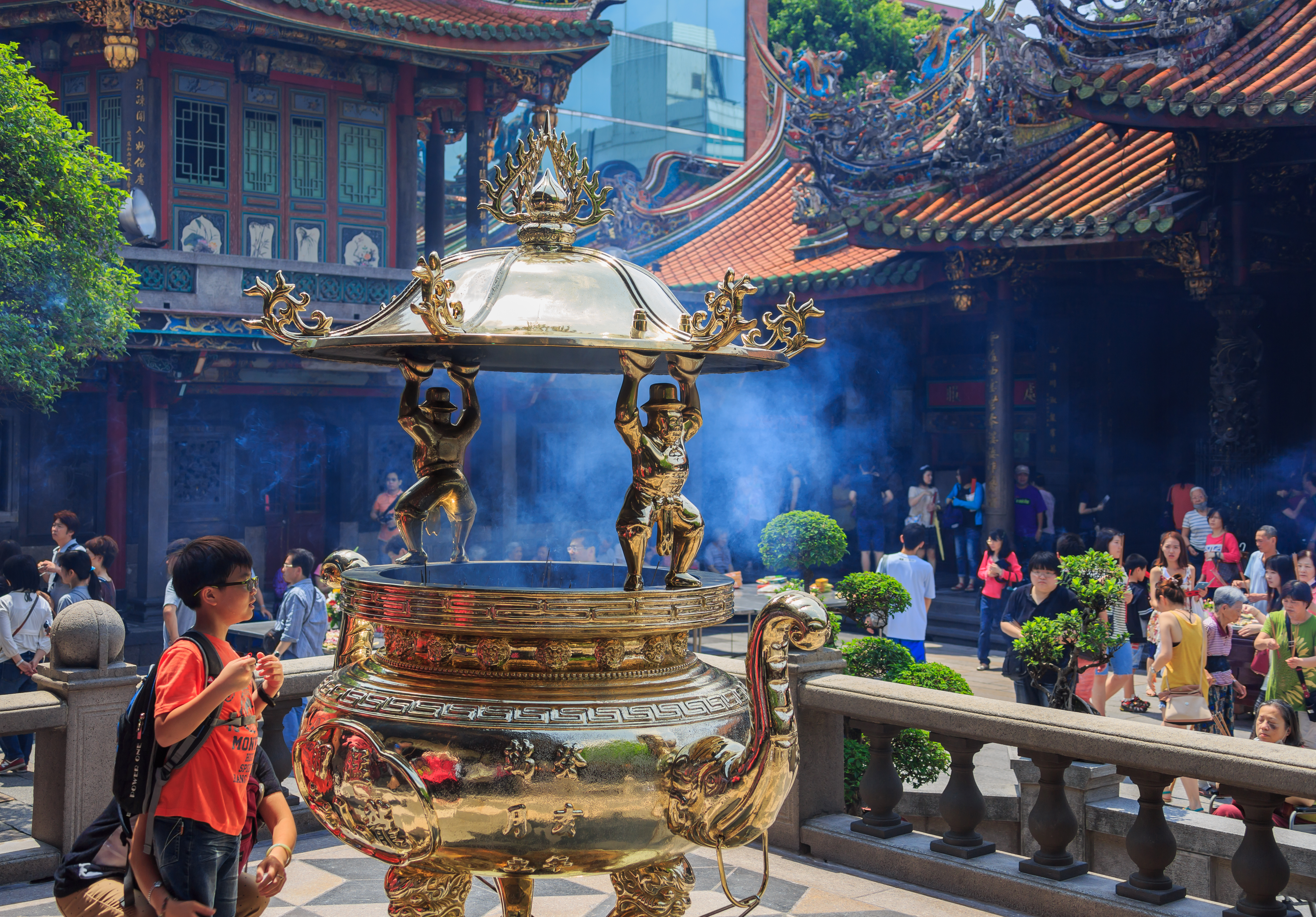 Taipei, Taiwan: Inside Mengjia Longshan Temple